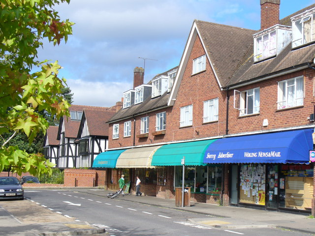 East Horsley. Mock Tudor houses and a shopping parade line Ockham Road South in this exclusive Surrey commuter village.